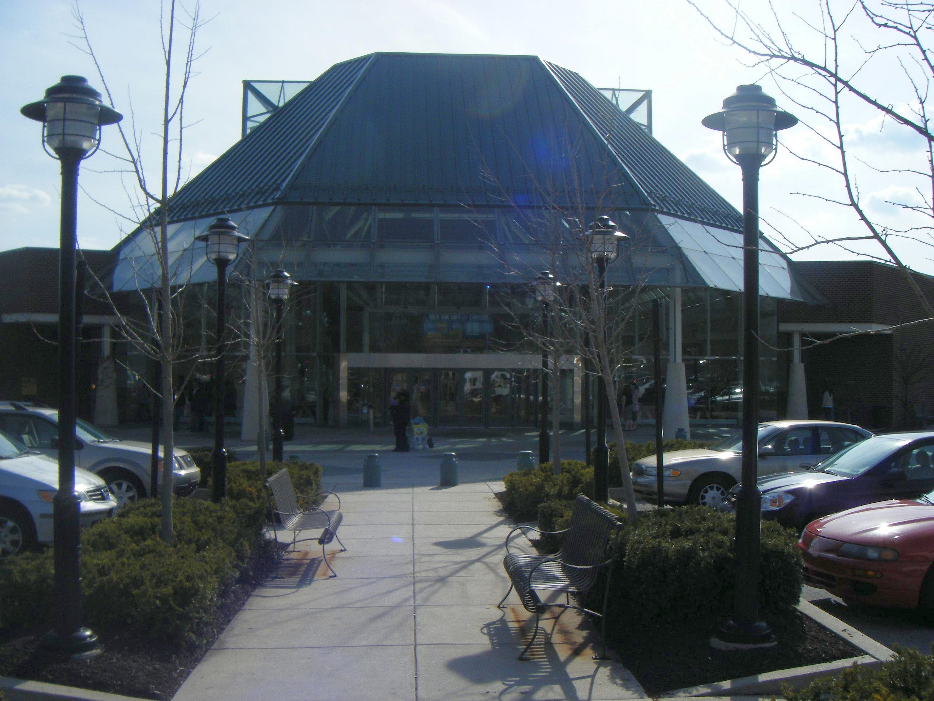 Entrance to the food court of the Exton Square Mall in Exton, Pennsylvania